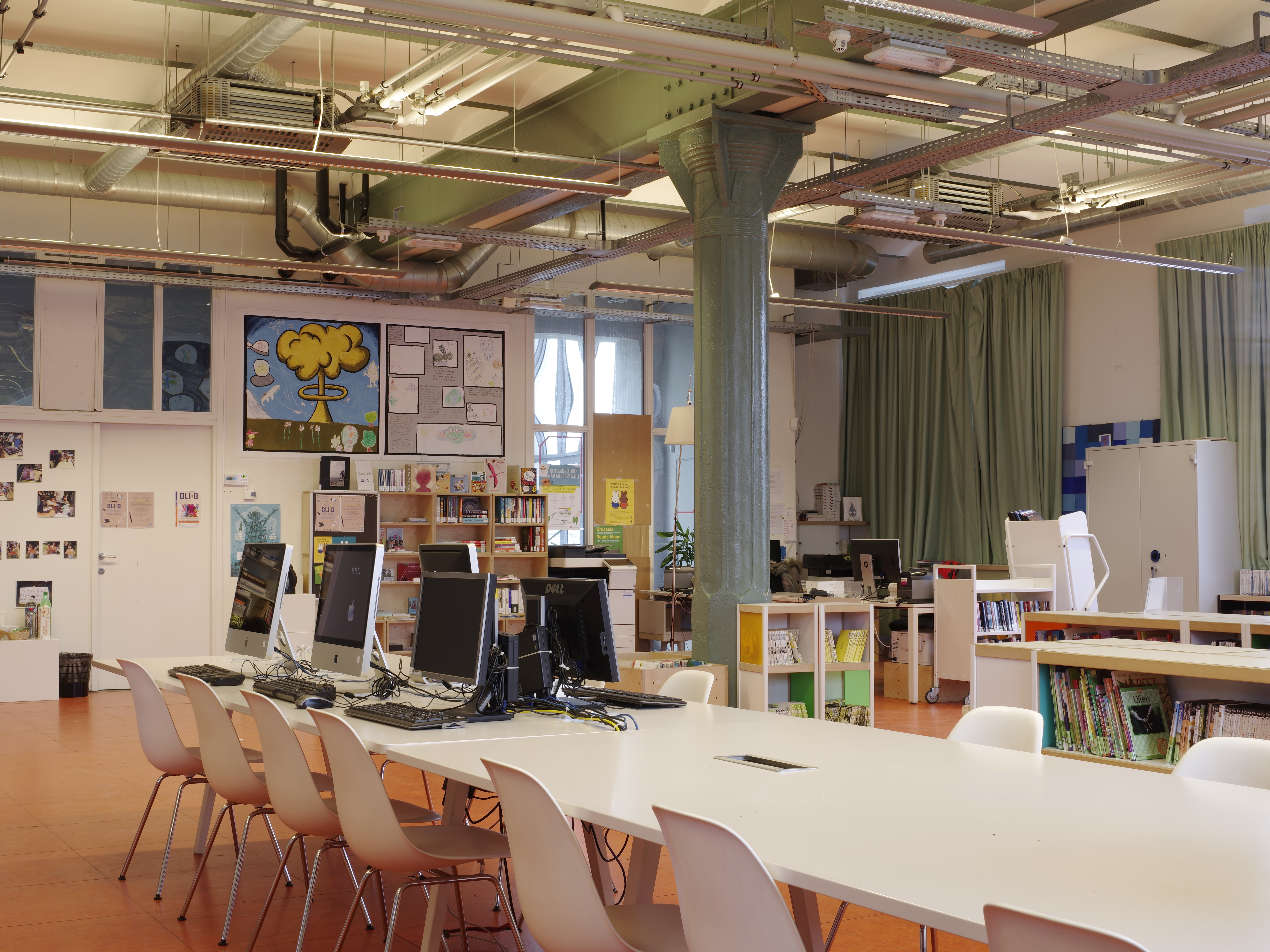 BLI:B, public library Vorst - Forest, at avenue Van Volxem 364 in 1190 Brussels (Forest).